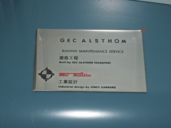 The Refurbishment Plate by GEC Alsthom in MTR East Rail Line MLR 中文（香港）: 東鐵線翻新列車公司的銘板